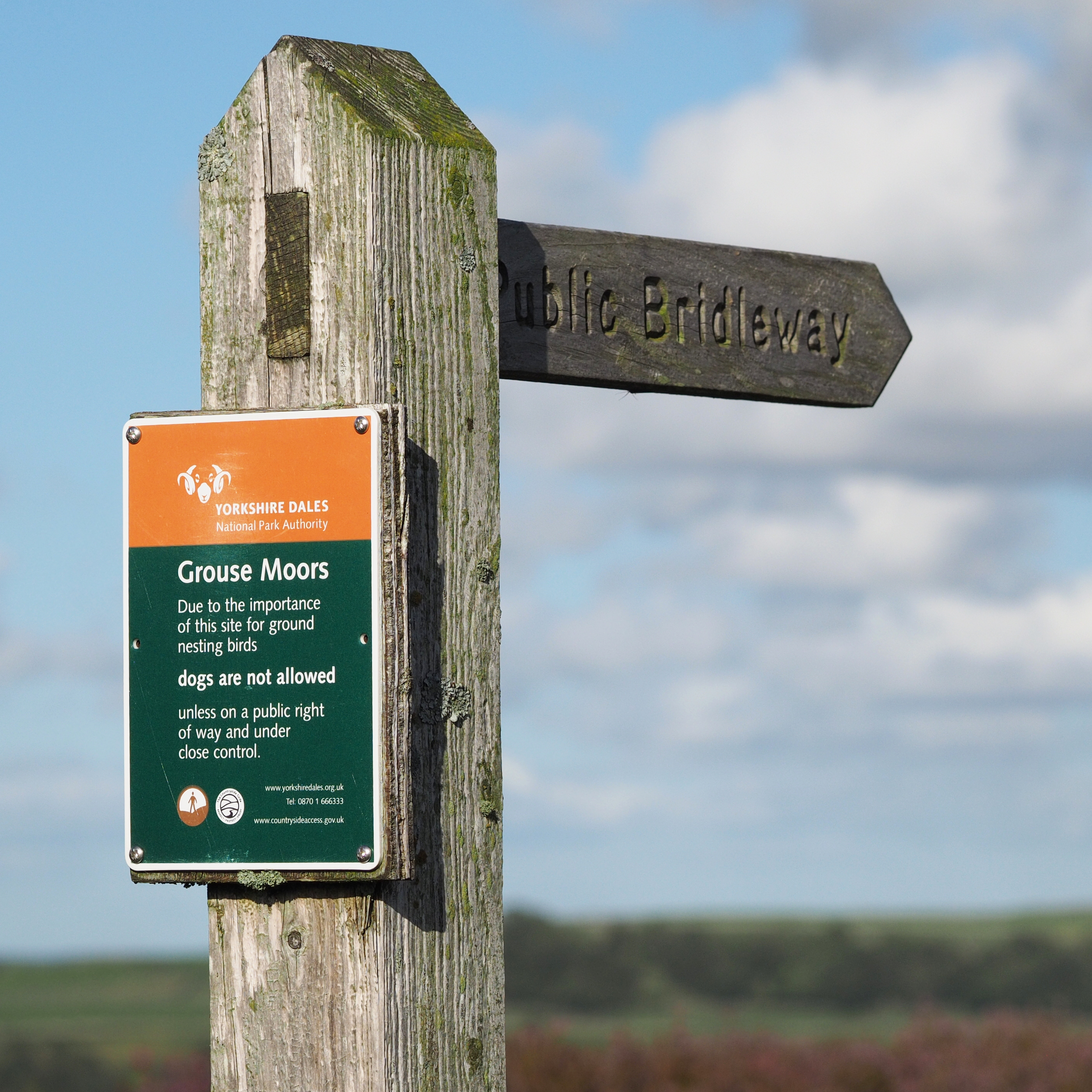 Sign on Access Land saying that dogs are allowed only on rights of way